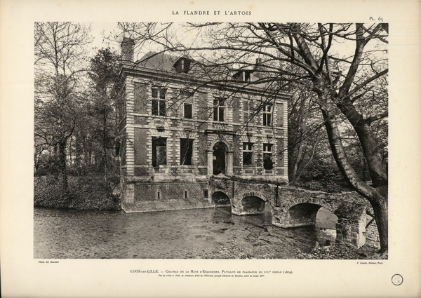 Loos-lez-Lille : Château de la Haye d’Esquermes date : circa 1923 [1923] dimensions : 32 x 44 cm. technique : phototypie